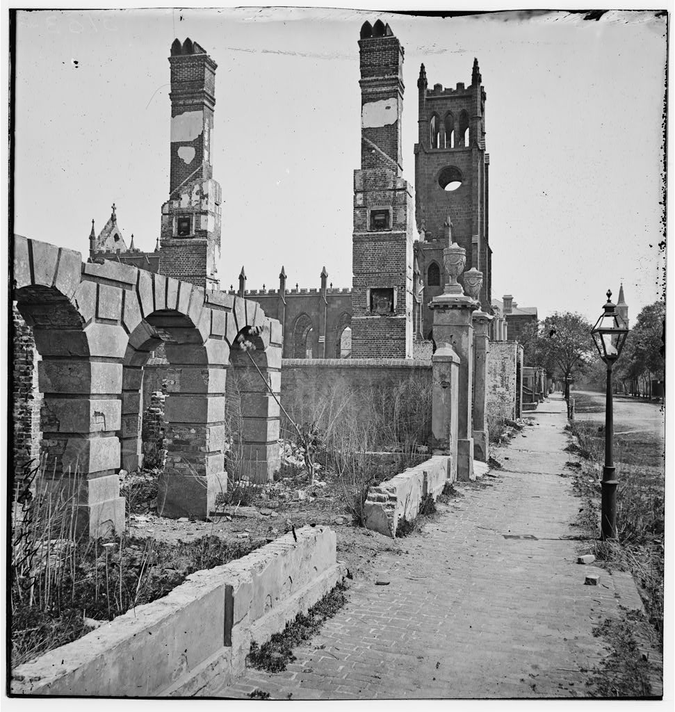 View of Broad Street, Charleston, South Carolina, 1865, looking east with the ruins of the Cathedral of St. John and St. Finbar visible. Glass wet collodion negative. The Library of Congress, Washington, D. C.